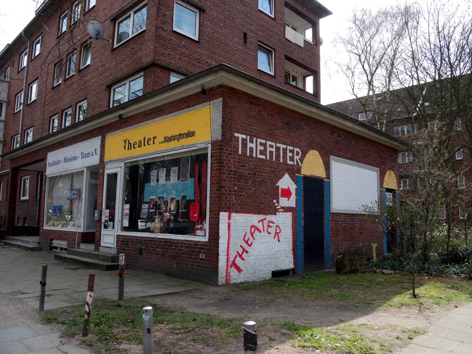 Theater an der Washingtonallee in Hamburg Horn